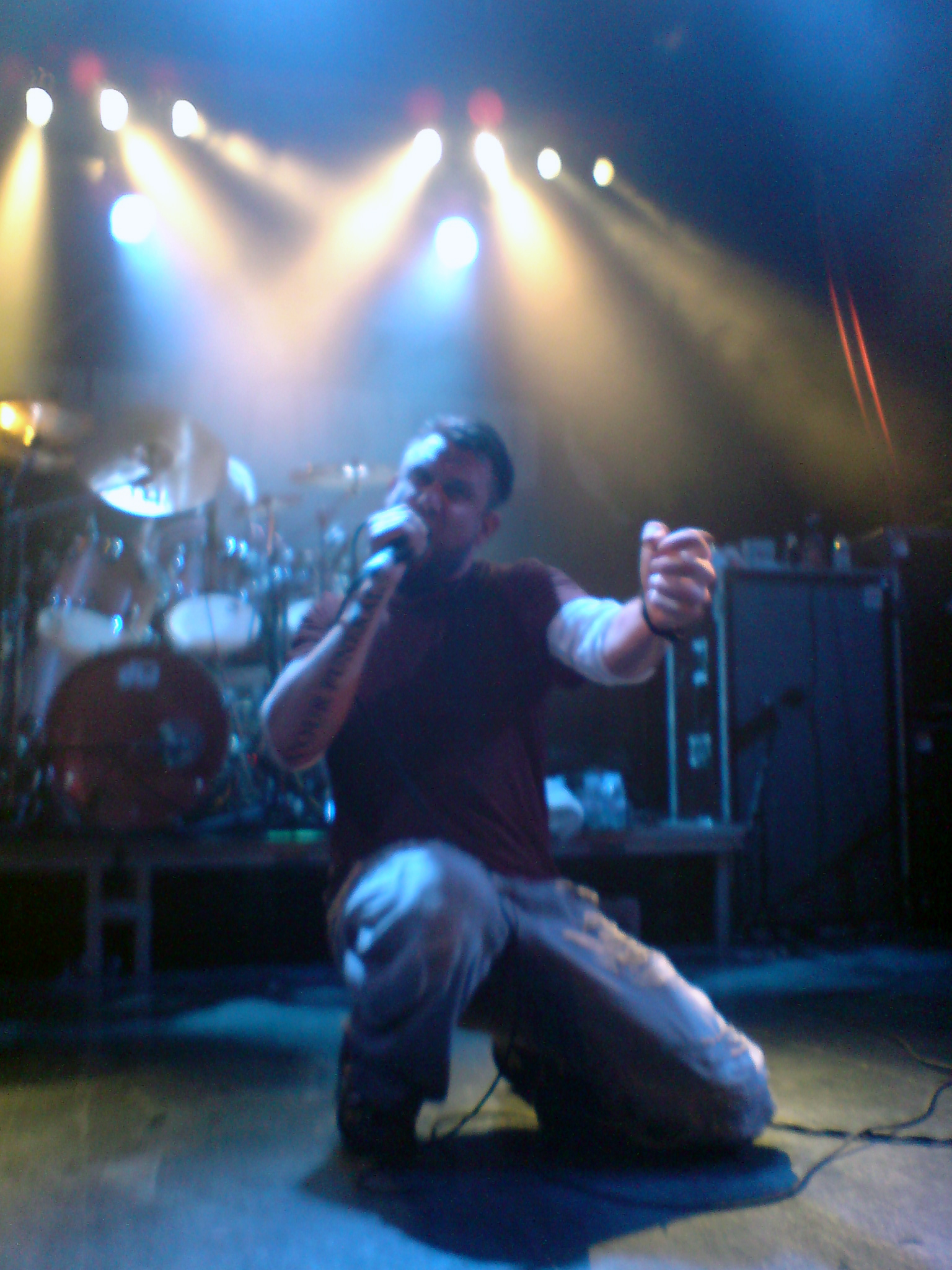 Peter Dolving in Barcelona on March 22, 2009